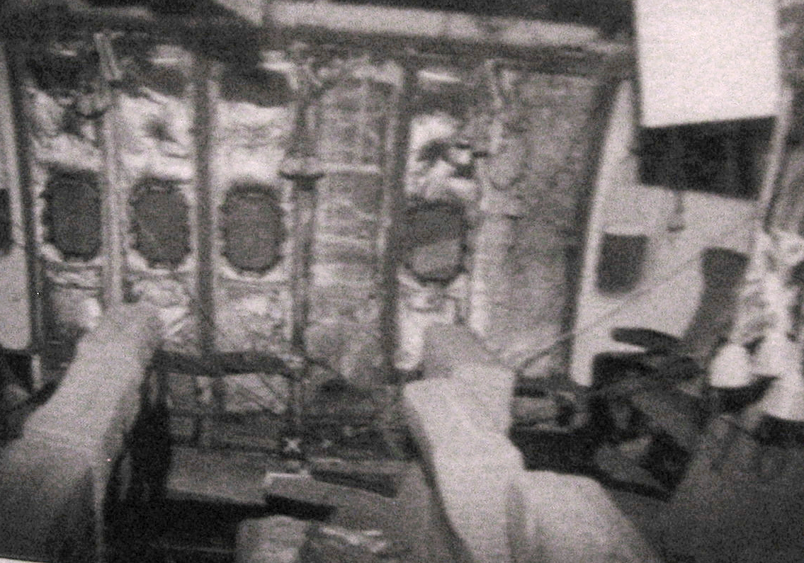 Aftermath of the Phillipine Airlines Bombing.